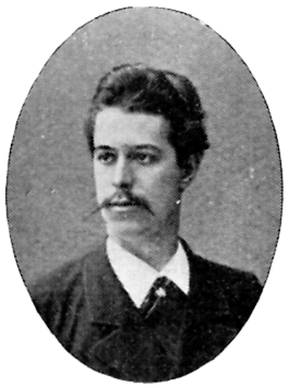 Image scanned from the book "Svenskt Porträttgalleri XX - Arkitekter, Bildhuggare, Målare m.fl. " ("Swedish Portrait Gallery XX - Architects, Sculptors, Painters, ") published 1901